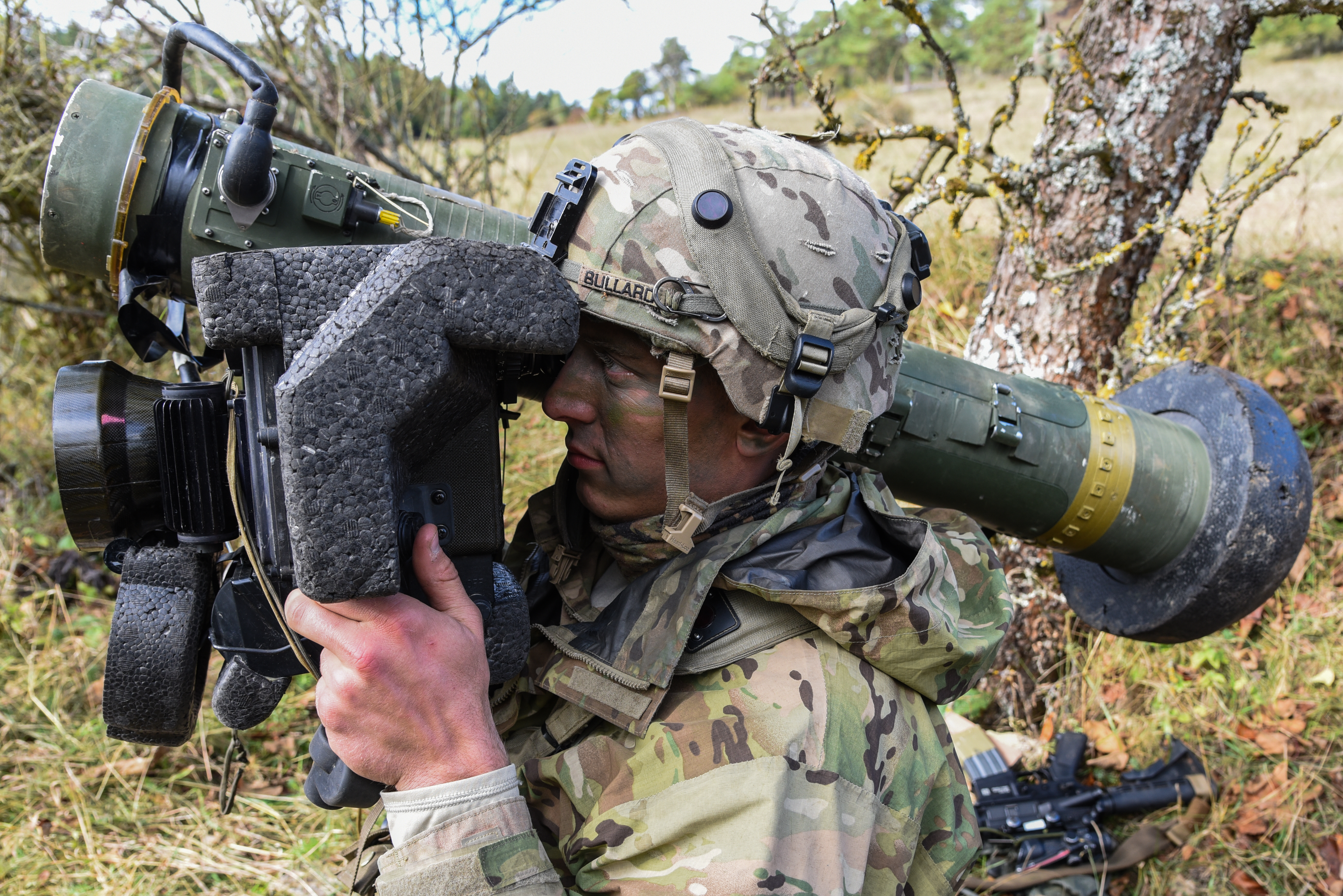 A U.S. Soldier with Charlie Company, 1st Battalion, 503rd Infantry Regiment, 173rd Airborne Brigade, controls a Javelin shoulder-fired anti-tank missile while setting up a defensive position during Exercise Allied Spirit V at the 7th Army Training Command's Hohenfels Training Area, Germany, Oct. 8, 2016. Allied Spirit is a multinational ground force training exercise designed to increase interoperability between U.S. and NATO forces. (U.S. Army photo by Markus Rauchenberger)